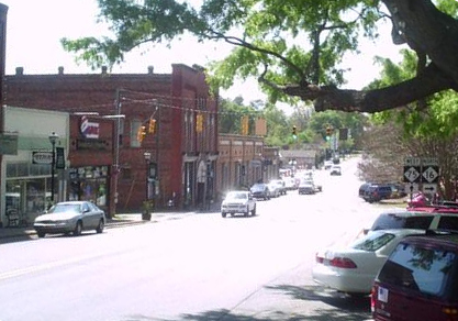 Downtown Waxhaw. The terminus of NC 16 at NC 75. No editing occurred.